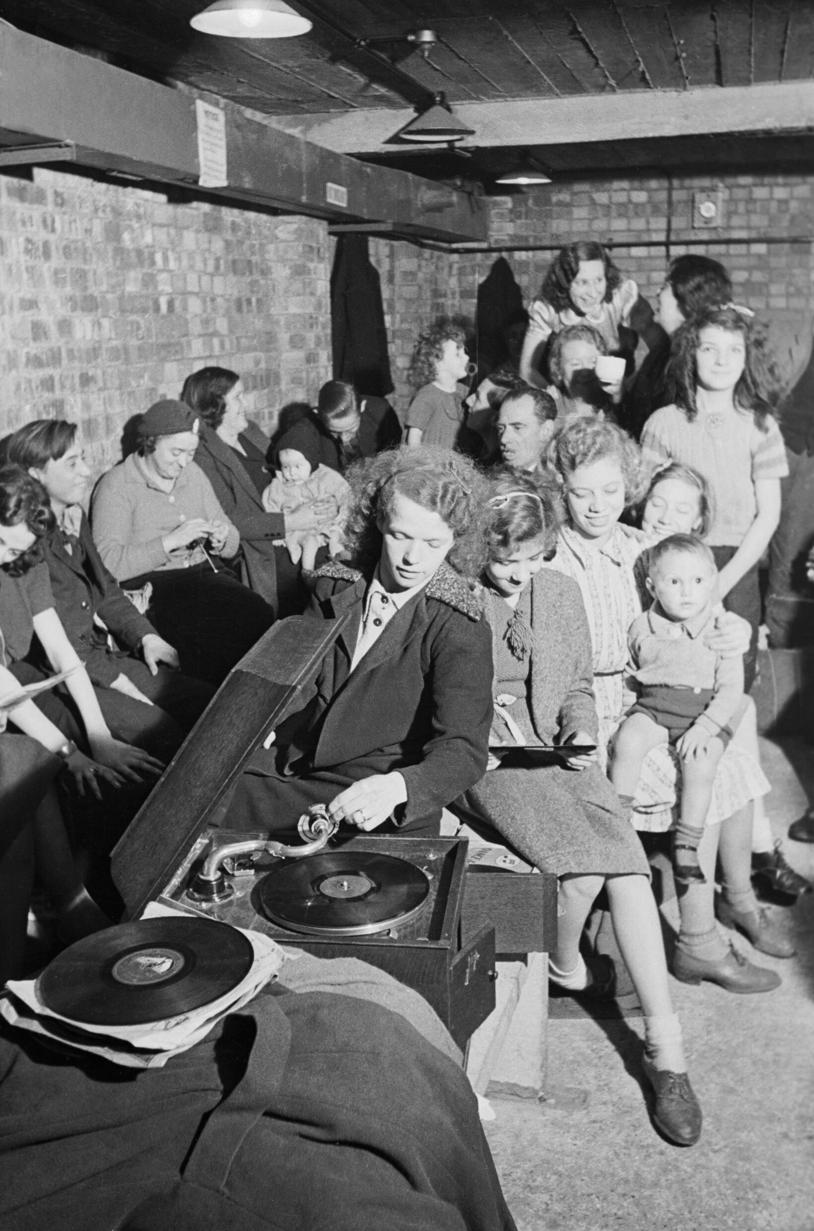 A young woman plays a gramophone in an air raid shelter in north London during 1940. A young woman places the gramophone needle on a record to bring some light relief to an air raid shelter, somewhere in north London. The rest of the shelterers appear to be enjoying her choice of music. In the background, one woman can be seen knitting, as others chat to pass the time.